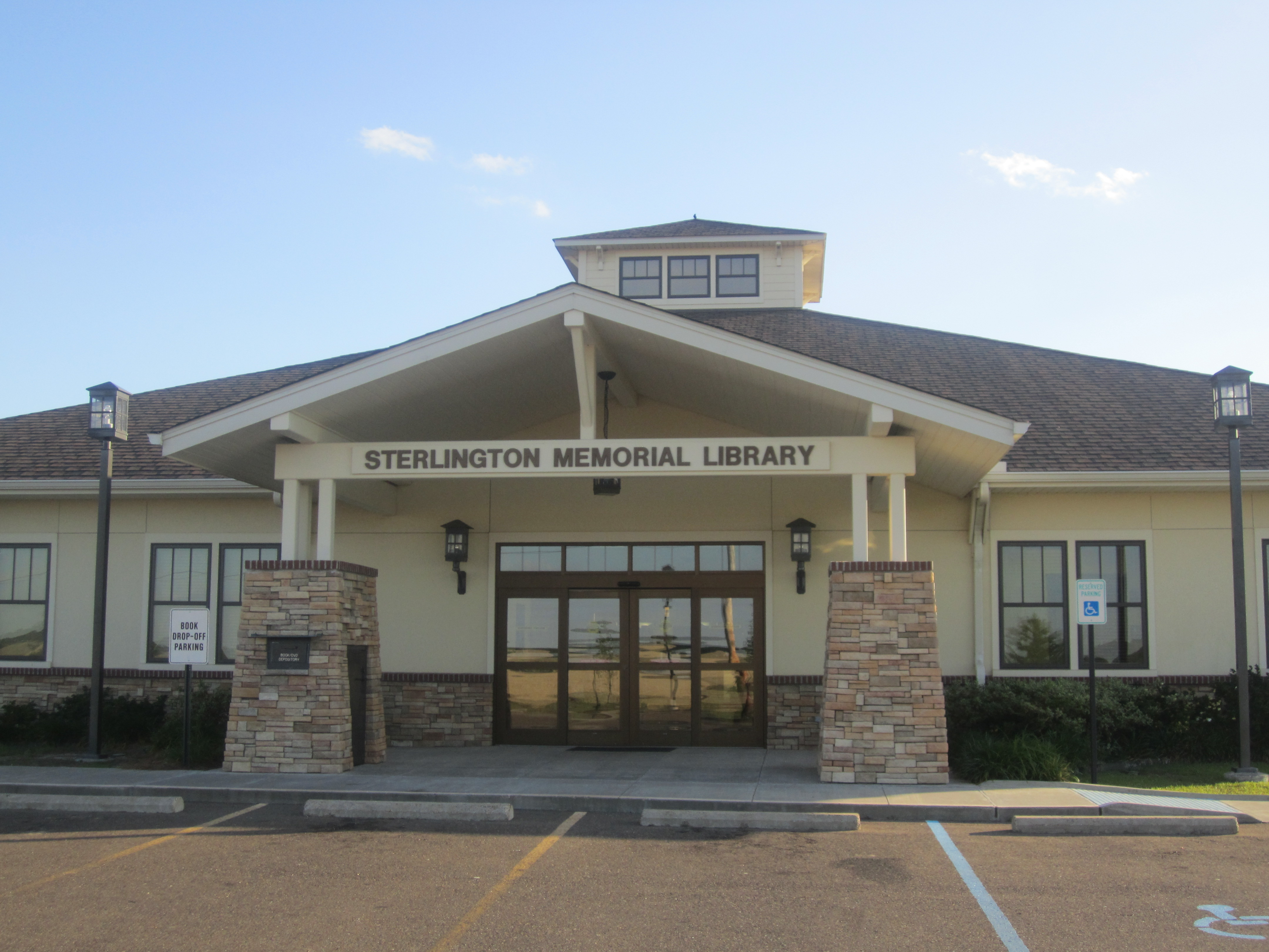 I took photo with Canon camera in Sterlington, LA, of the town library.